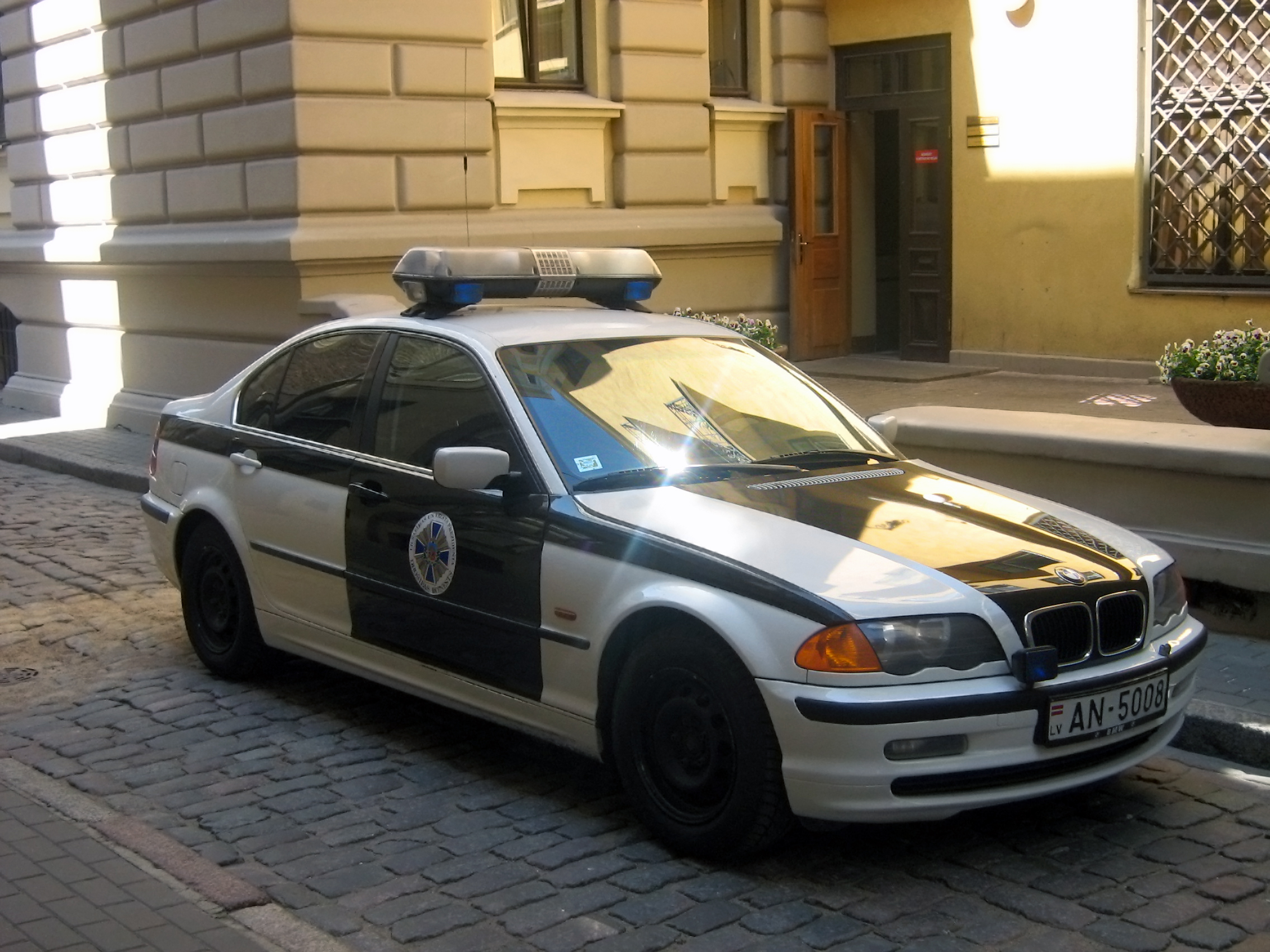 Latvian police car. This one belongs to Security service of Latvian parliament and President.